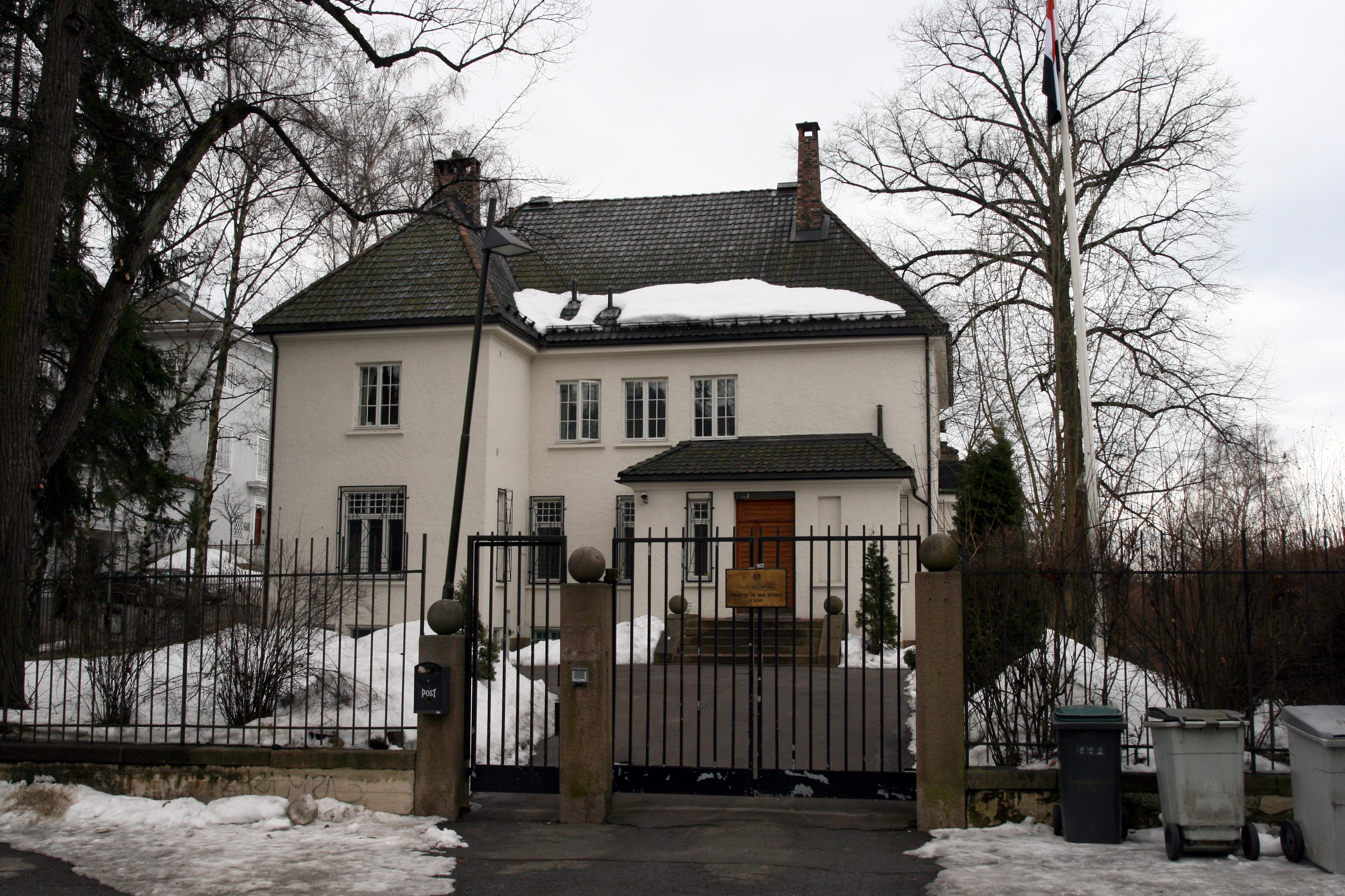 The embassy of Egypt, Oslo.